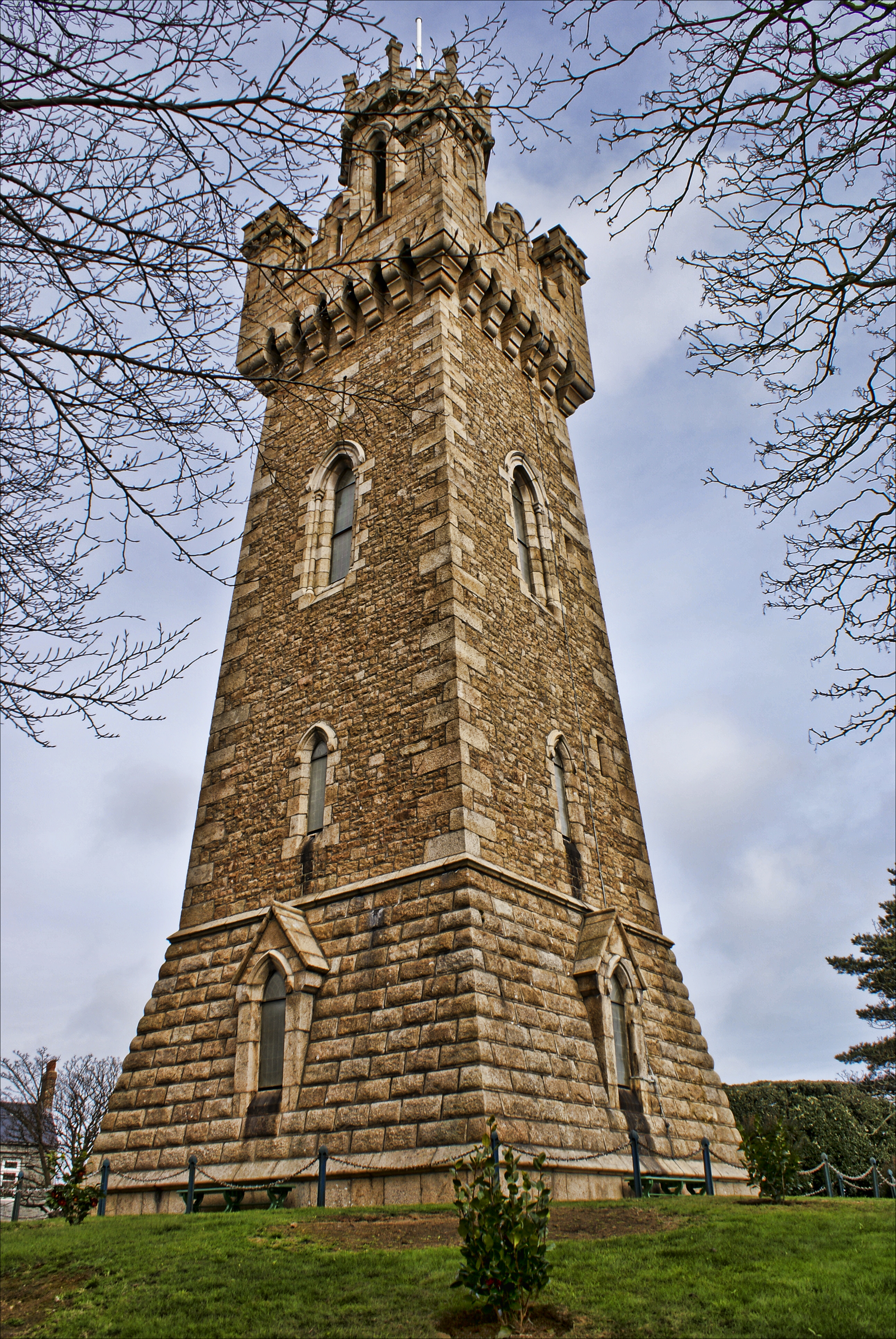 Victoria Tower in St Peter Port, Guernsey